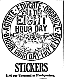 Advertisement